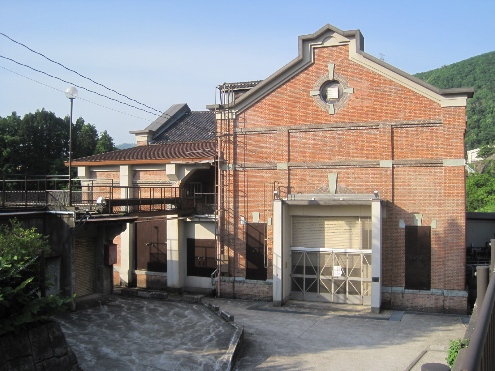 Fukuoka I Water Plant (Hokuriku Electric Power Company)